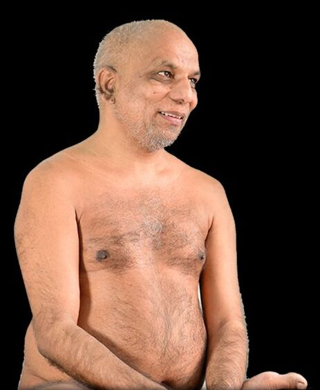 This Picture was taken for the use of social media by our team.We contain the right to use of this image for the social media upload purpose.